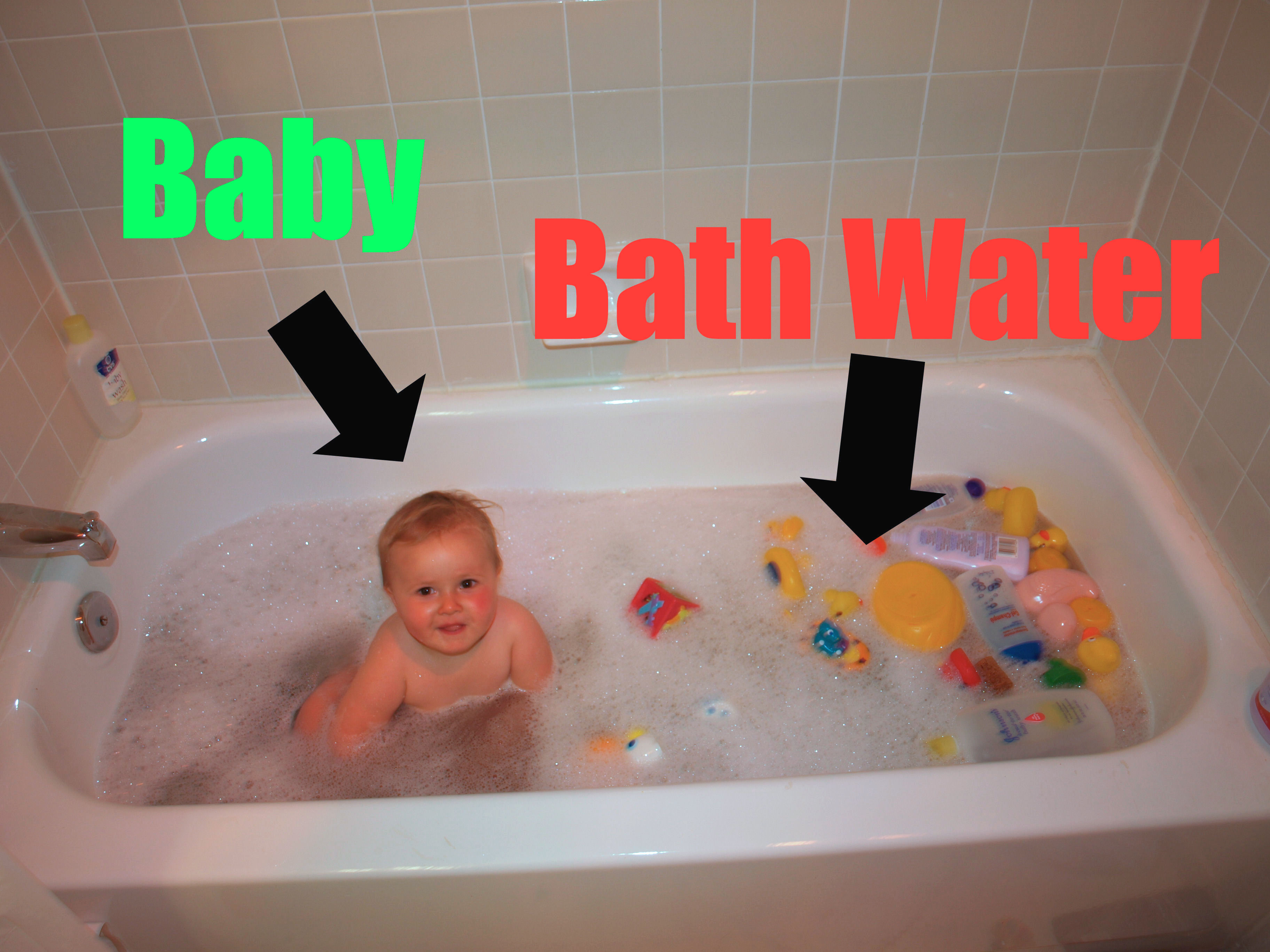 Visual image for "Don't throw out the baby with the bathwater"